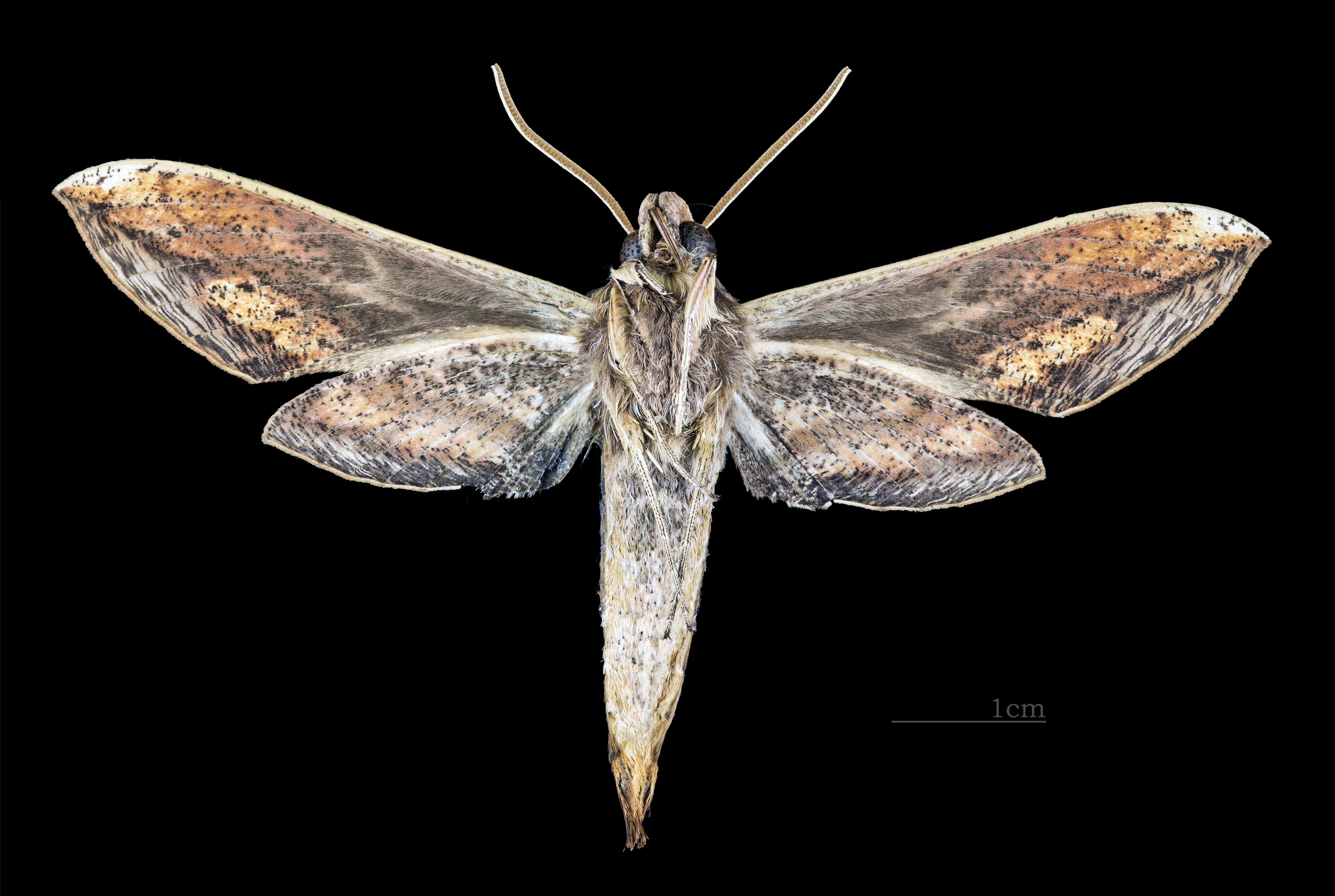 Xylophanes xylobotes - △ Ventral side Collection of the Mathematician Laurent Schwartz